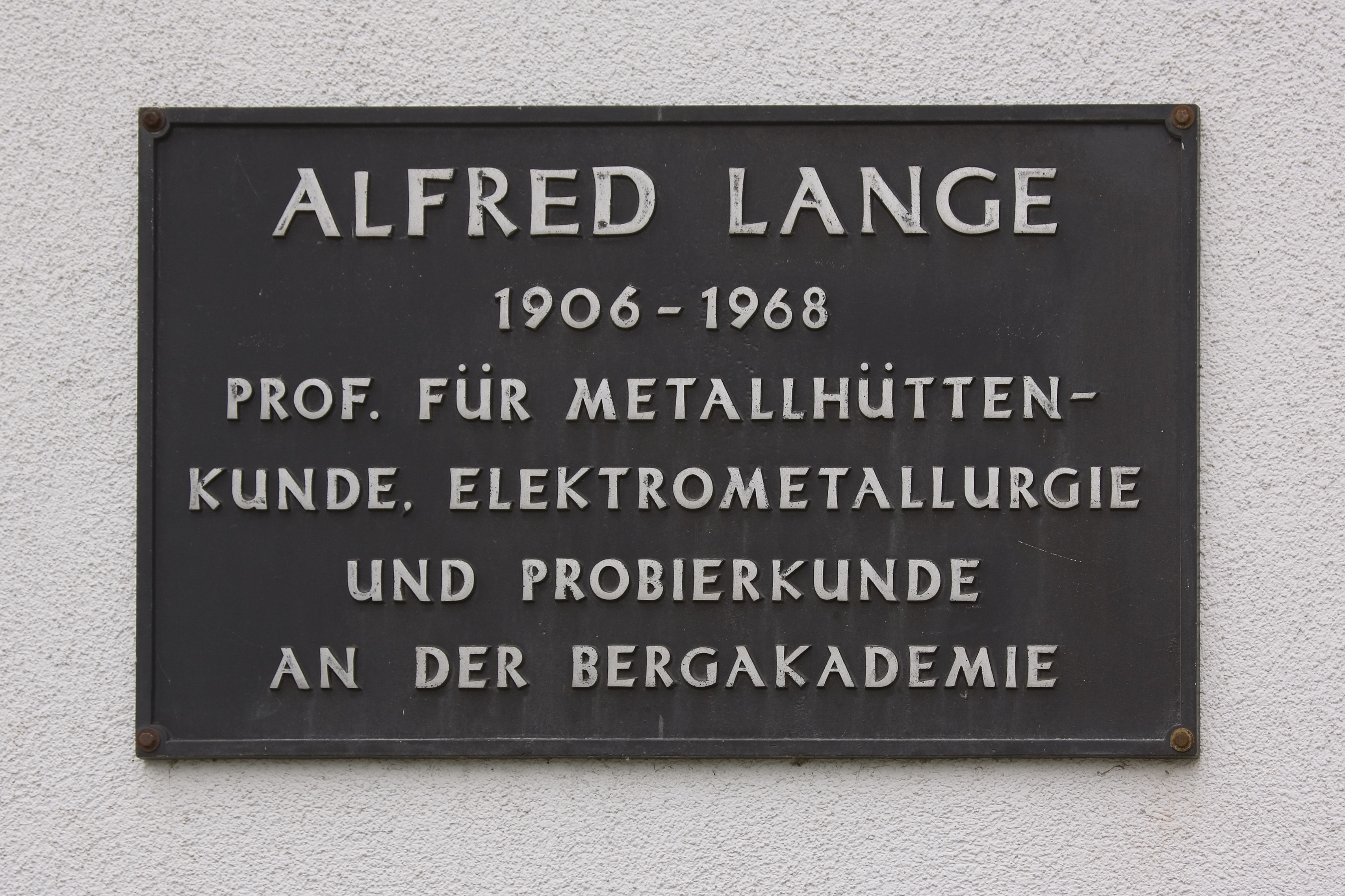 Alfred Lange, German metallurgist, plaque in Freiberg, Saxony